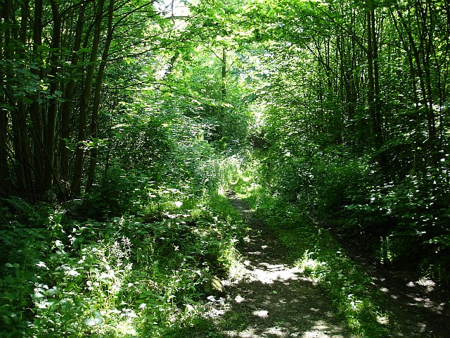 Track through Shulland Wood. Broadleaf woodland/chestnut coppice south of Doddington. This is sweet chestnut, Castanea sativa, not to be confused with the conker tree or horse chestnut, Aesculus hippocastanum.